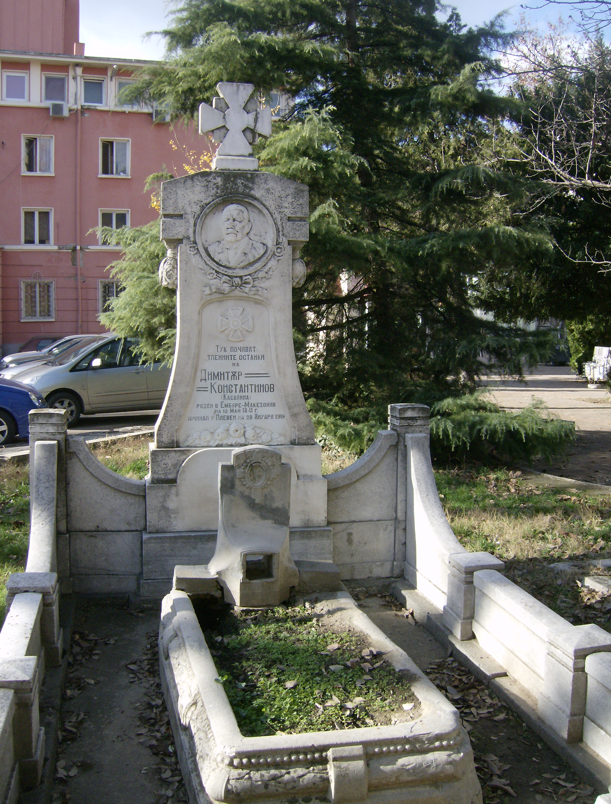 Monument Dimitar Konstantinov